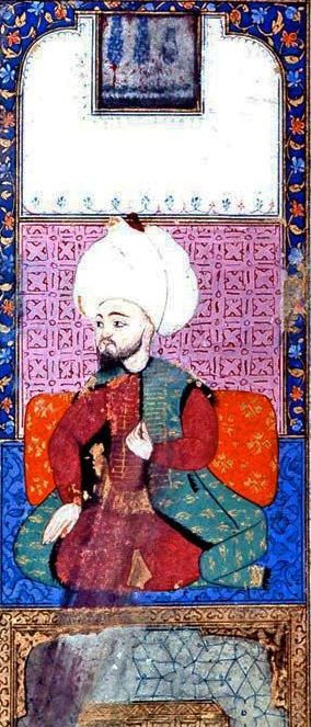 Djem Sultan from "Meşairü·ş şuara". Millet Ktp. , Ali Emiri. nr. 772, vr. 96b